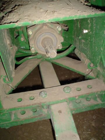 This is a tractor power take-off. The PTO is a device that is located on the back of farming tractors. Some farming implements have a shaft that is plugged into the PTO. The PTO rotates the shaft using power from the tractor engine, and the shaft transfers the power to the implement to perform certain functions.